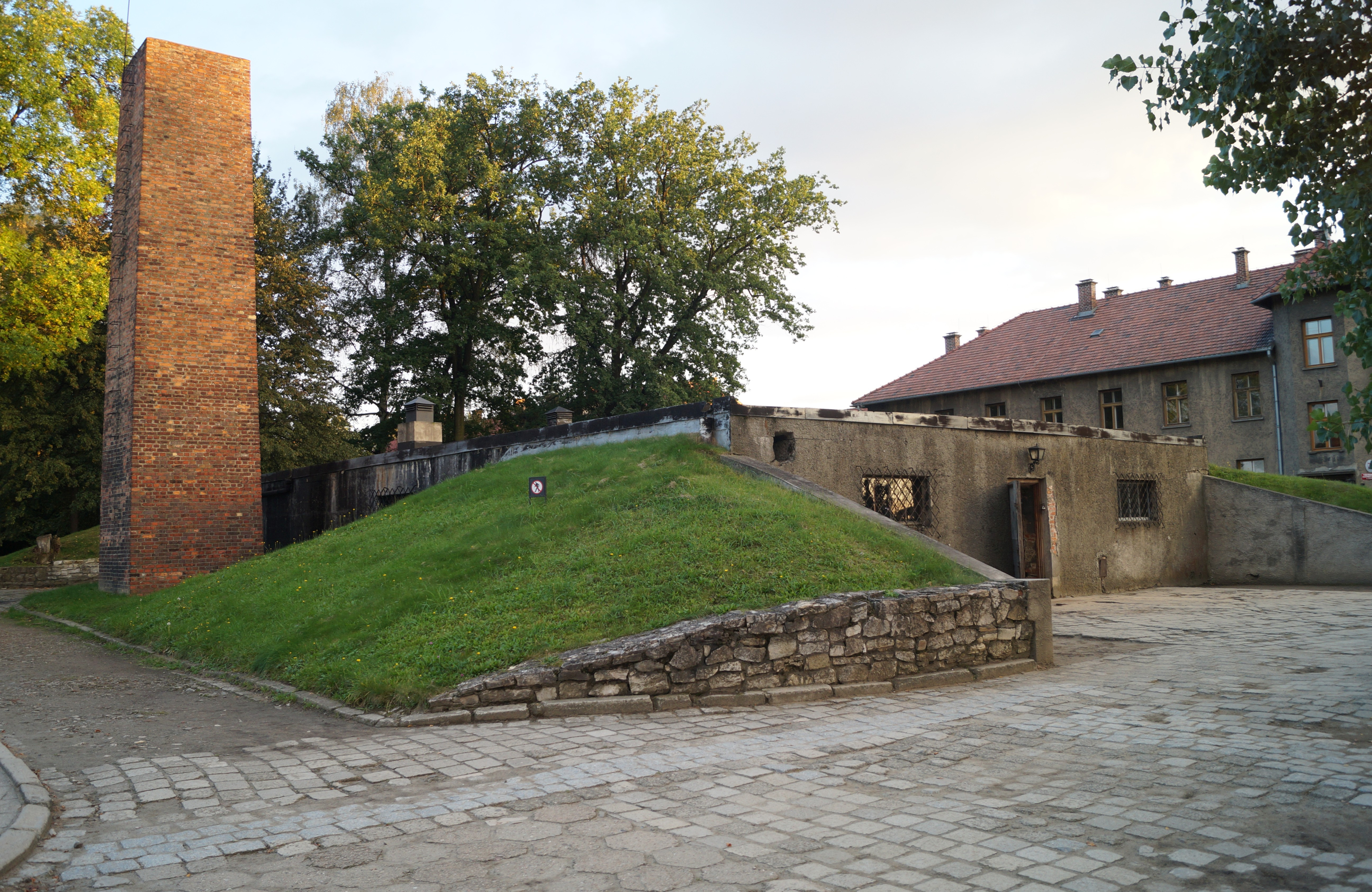 This photo was taken during Automotive Wikiexpedition 2016 set up by Wikimedia Polska Association.You can see all photographs in category Wikiekspedycja motoryzacyjna 2016. English | polski | +/− Krematorium w KL Auschwitz I